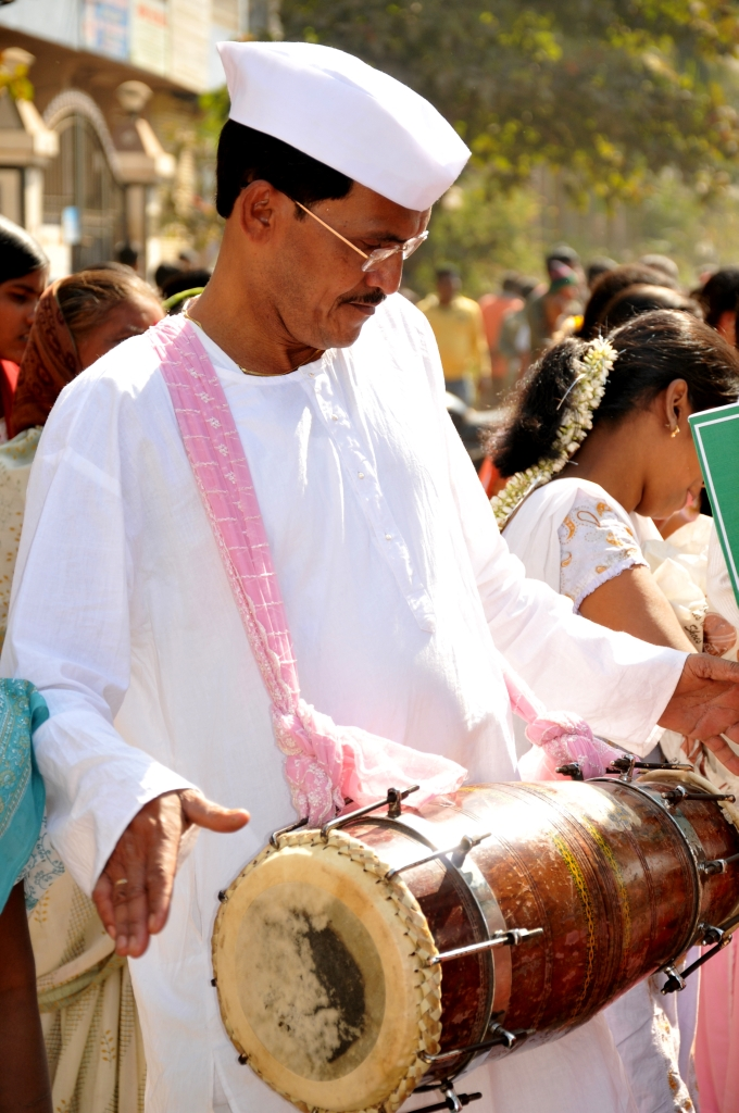 Shot in the morning procession on day 1 of the 45th Nirankari Sant Samagam of Maharashtra. Location: Airoli, Navi Mumbai, Maharashtra Date: January 20, 2012